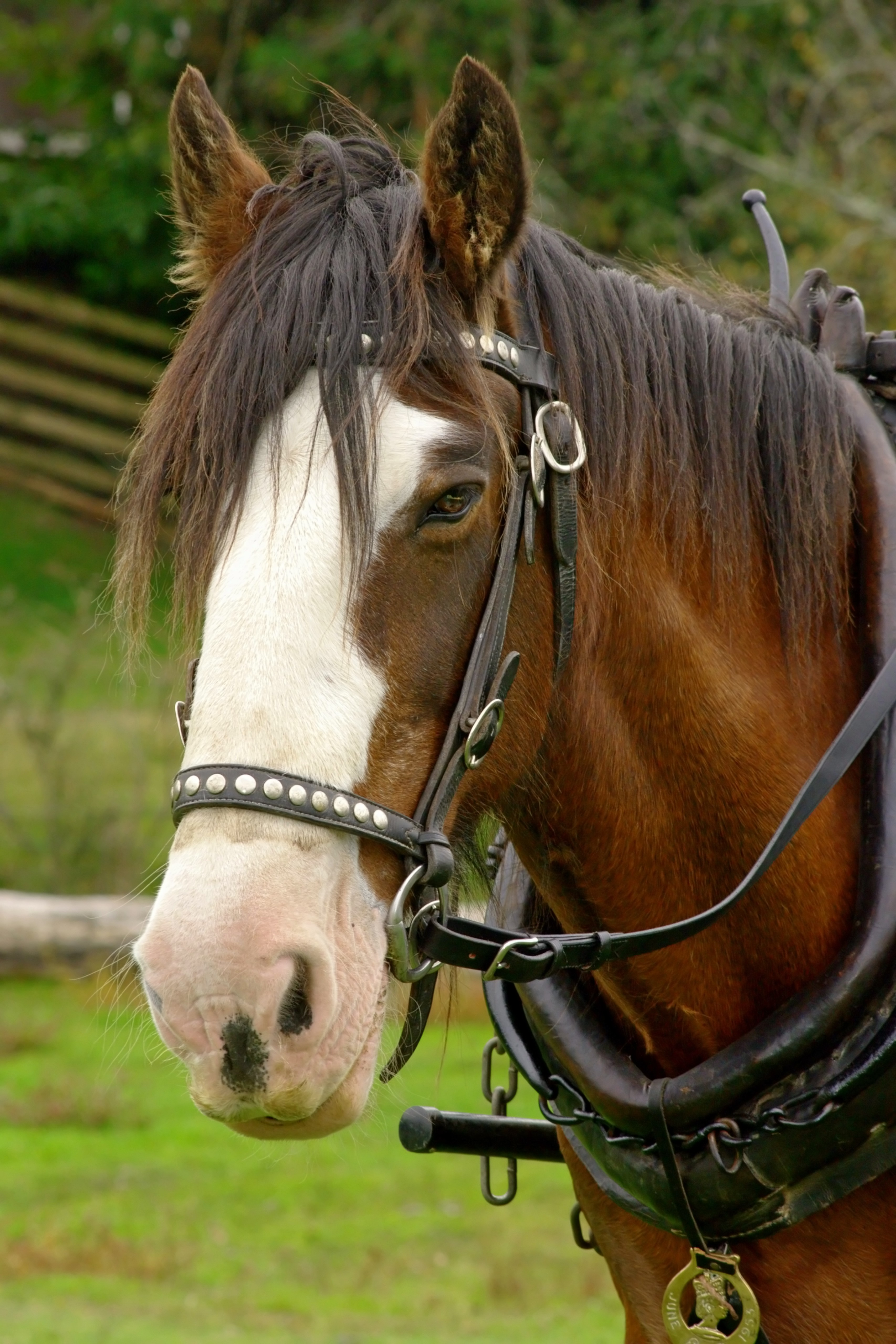 A Patient Gentleman, just waiting....